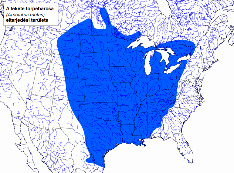 Distribution map of black bullhead (Ameiurus melas)